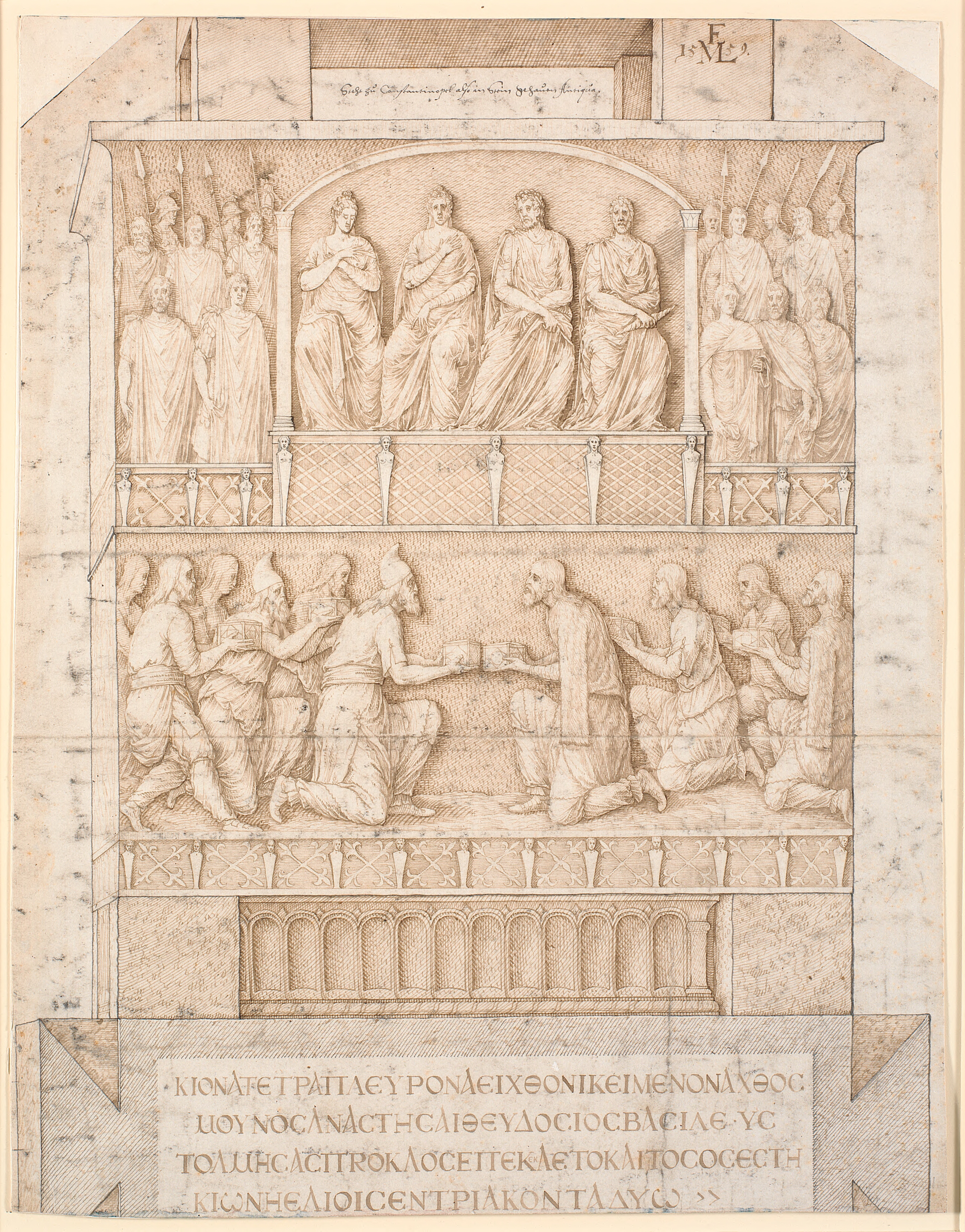 The Pedestal of the Obelisk of Tuthmosis III in Constantinople. Pen, grey and brown ink. 436x340 mm Before 1887 Inv. no.: KKSgb5472